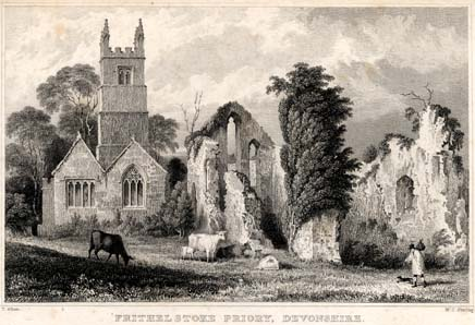 1830 Engraving of ruins of Frithelstock Priory, Devon, by Thomas Allom & M.J. Starling. Published in Britton, J. Devonshire & Cornwall illustrated from original drawings by Thomas Allom, W.H. Bartlett, &c, by J.Britton & E.W.Brayley (London: H.Fisher, R.Fisher & P.Jackson, 1832). p.72